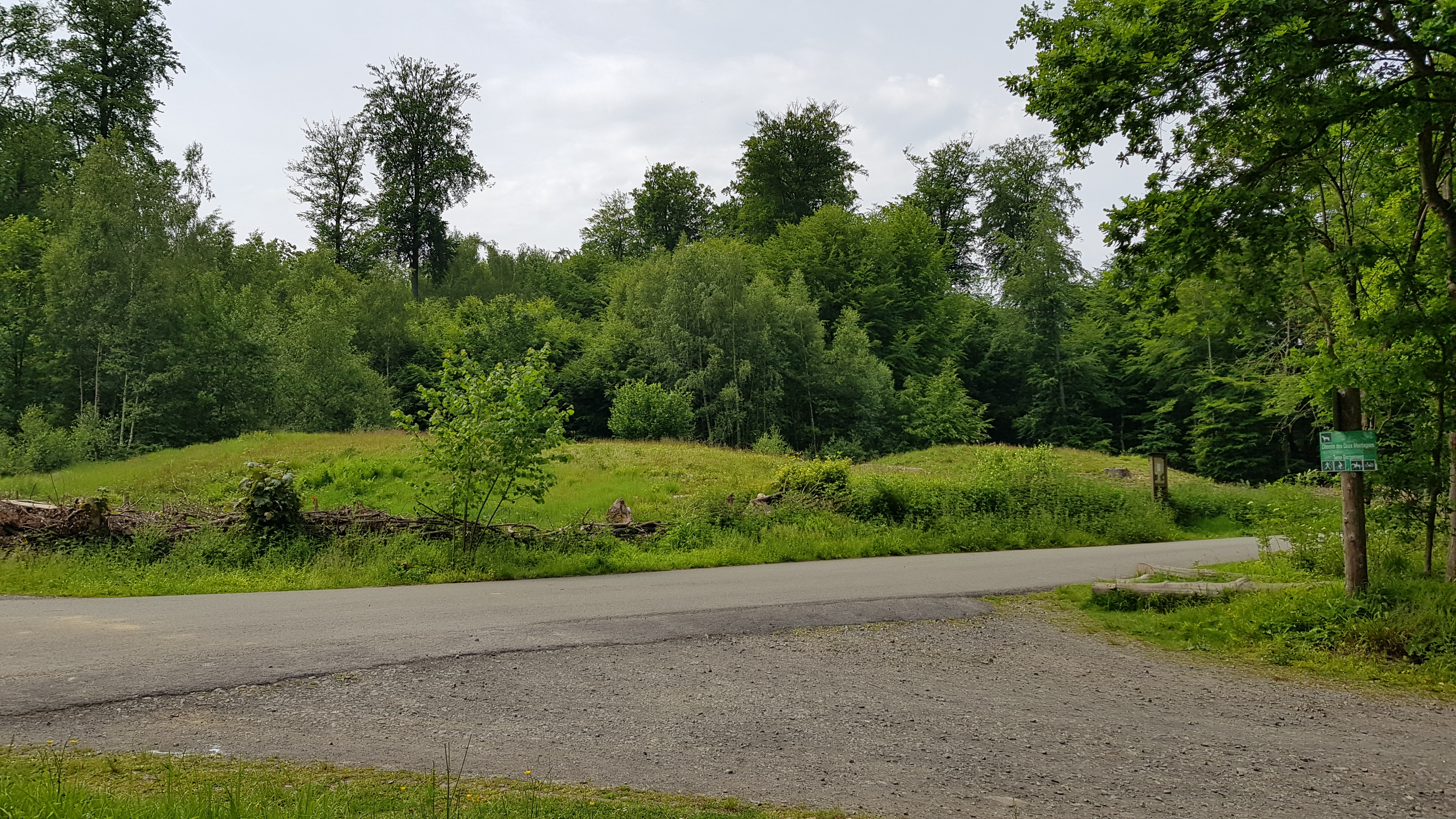 burial mounds in Sonian Forest near Bosvoorde/Boitsfort, Belgium